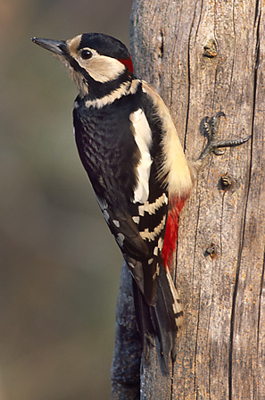 Great Spotted Woodpecker (Dendrocopos major) .